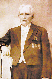 Composer of the El Salvadoran National Anthem, Juan Aberle (1846-1930)